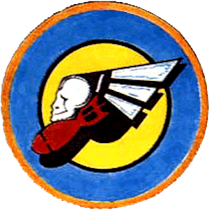 Emblem of the 366th Bombardment Squadron (World War II)